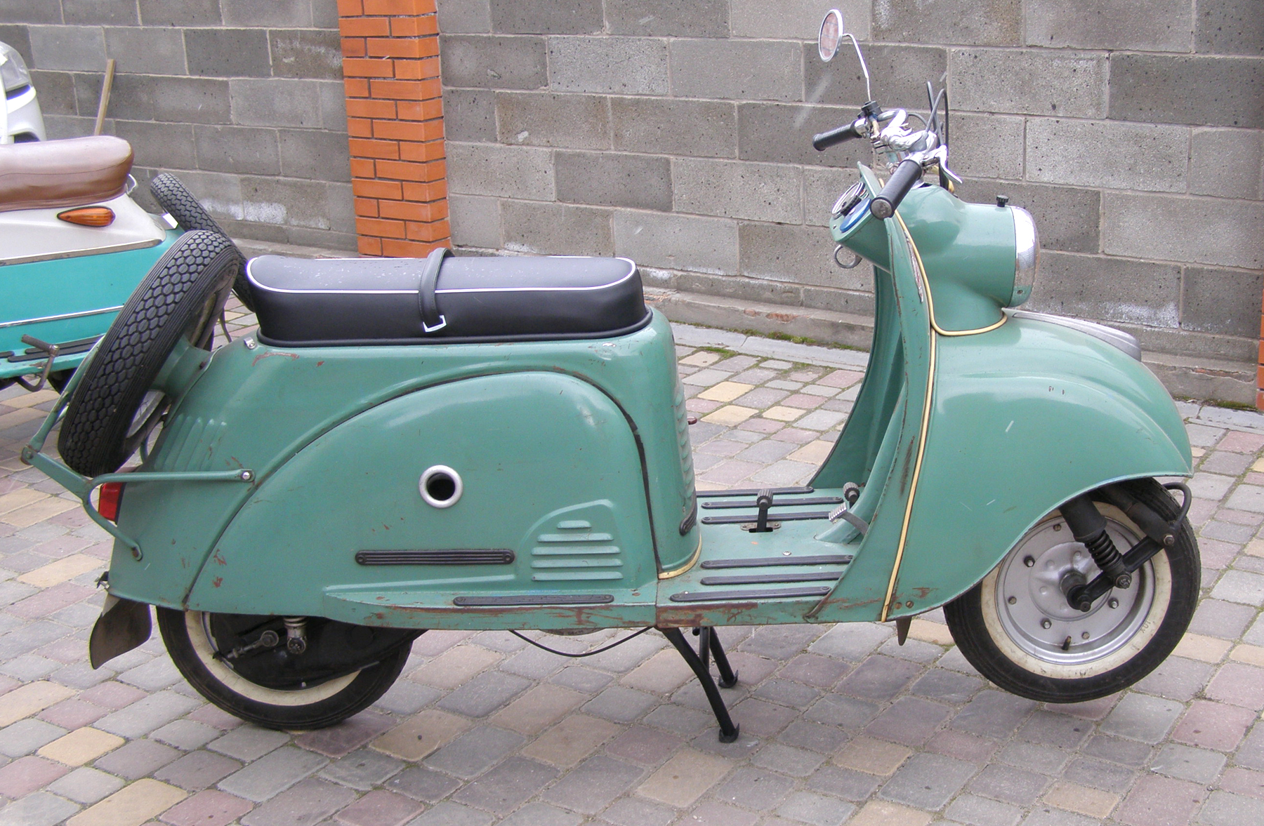 USSR scooter Tula T-200M